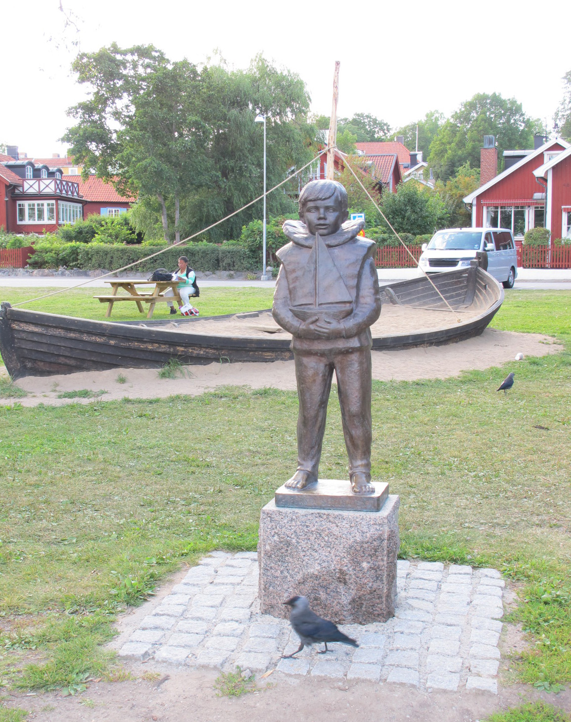 The statue Den första segelbåten (1972) by David Wretling erected in Sigtuna in 1990.